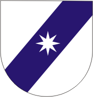 Coat of arms of Kiviõli linn, Estonia